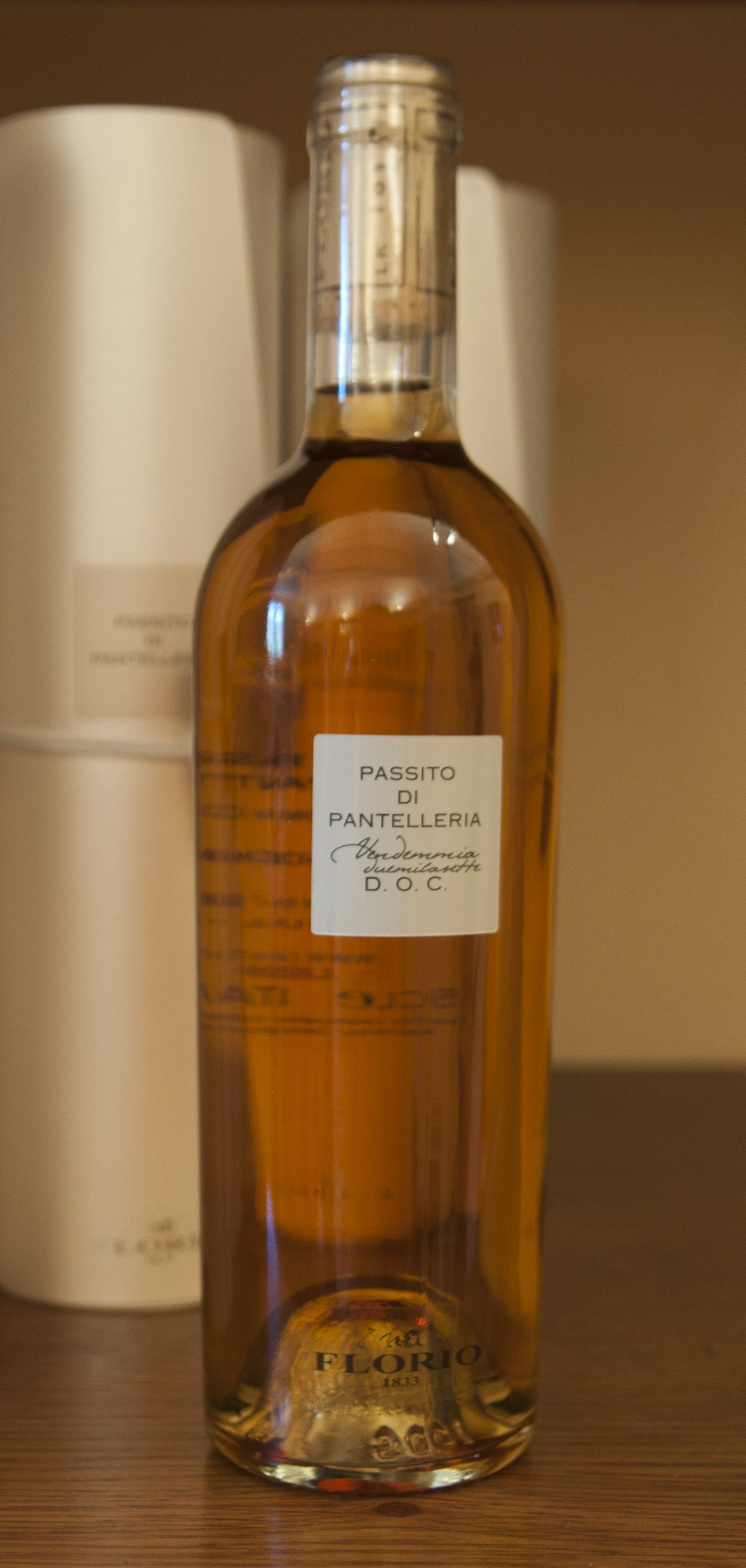 A bottle of Passito di Pantelleria of Florio